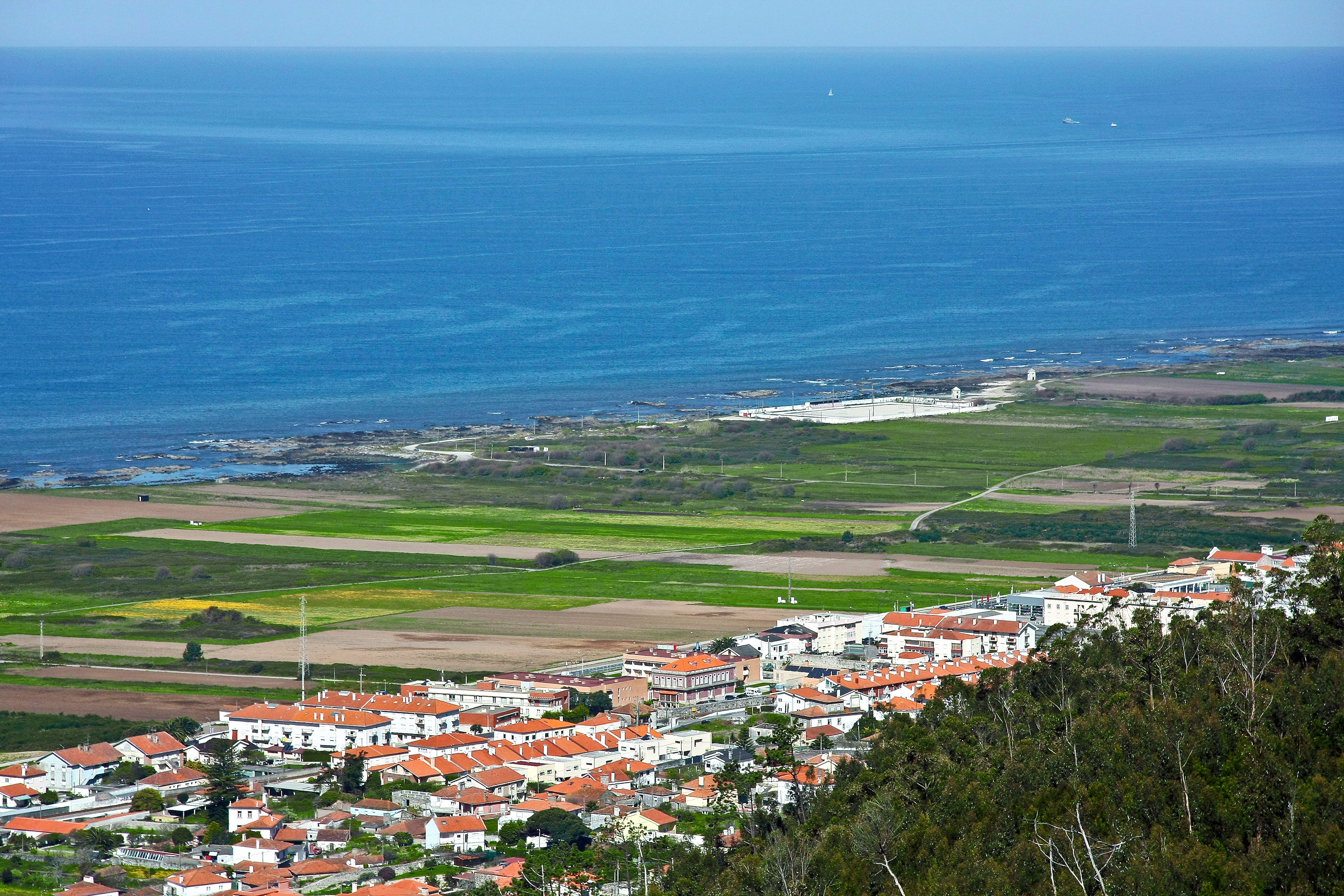 See where this picture was taken. [?]